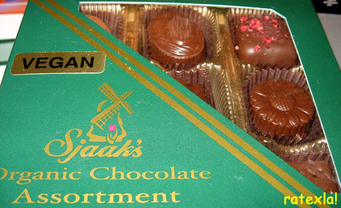 Organic vegan chocolate